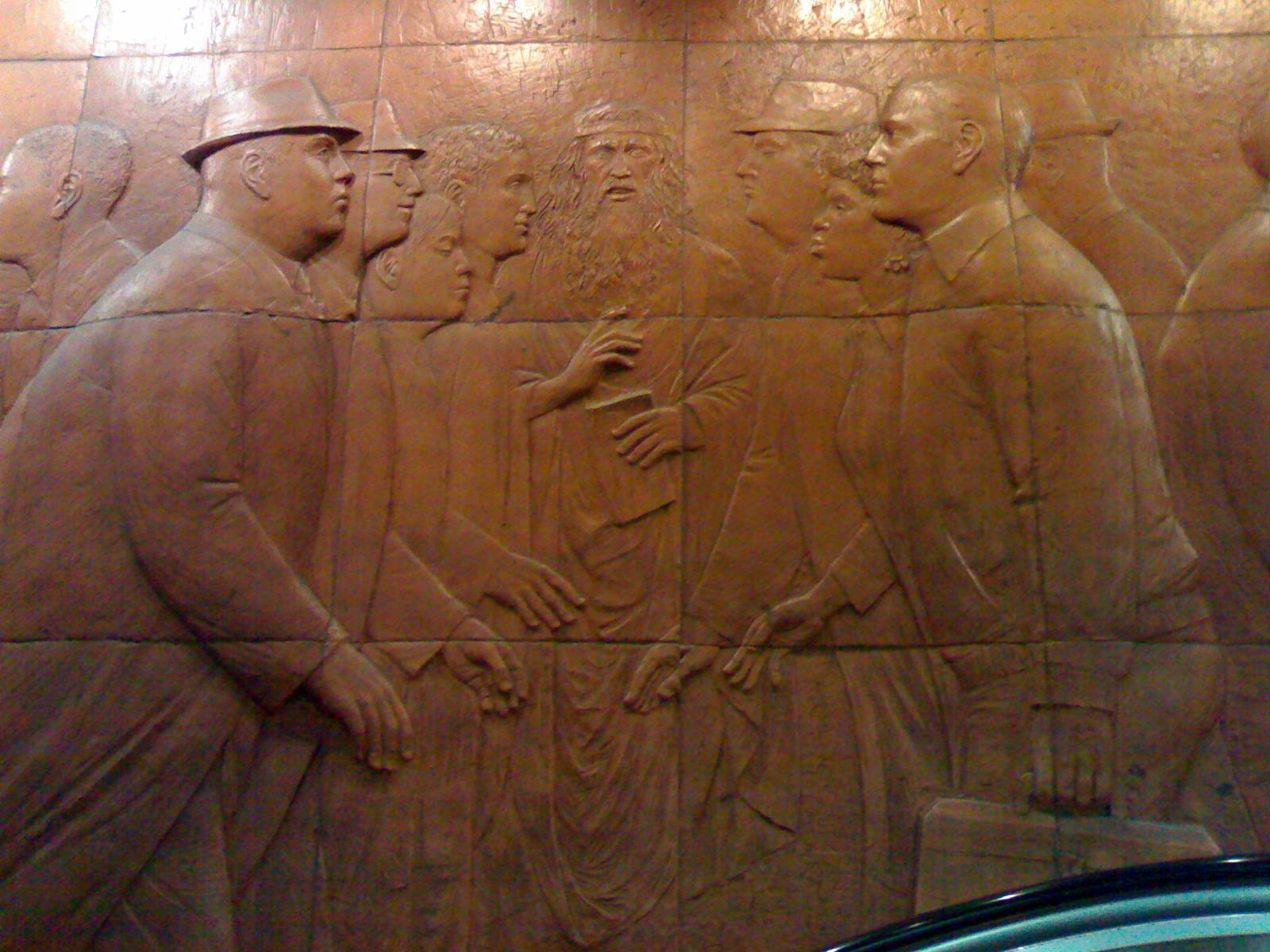 Detail of William McElcheran's "Cross Section" mural at Dundas subway station in Toronto